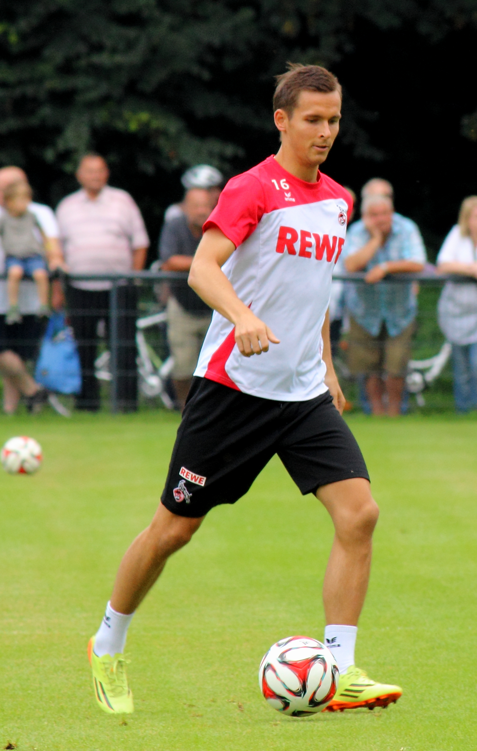 Paweł Olkowski in training with 1. FC Koln